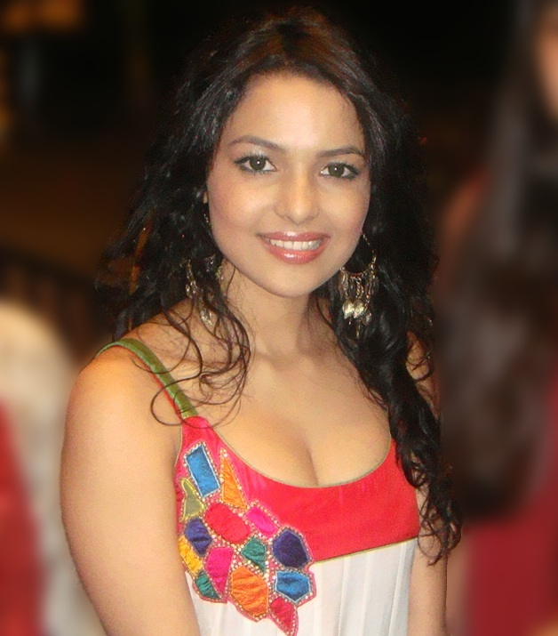 Chitrashi Rawat (Komal Chautala) Chak de India star at UANA convention 04-09-2010.